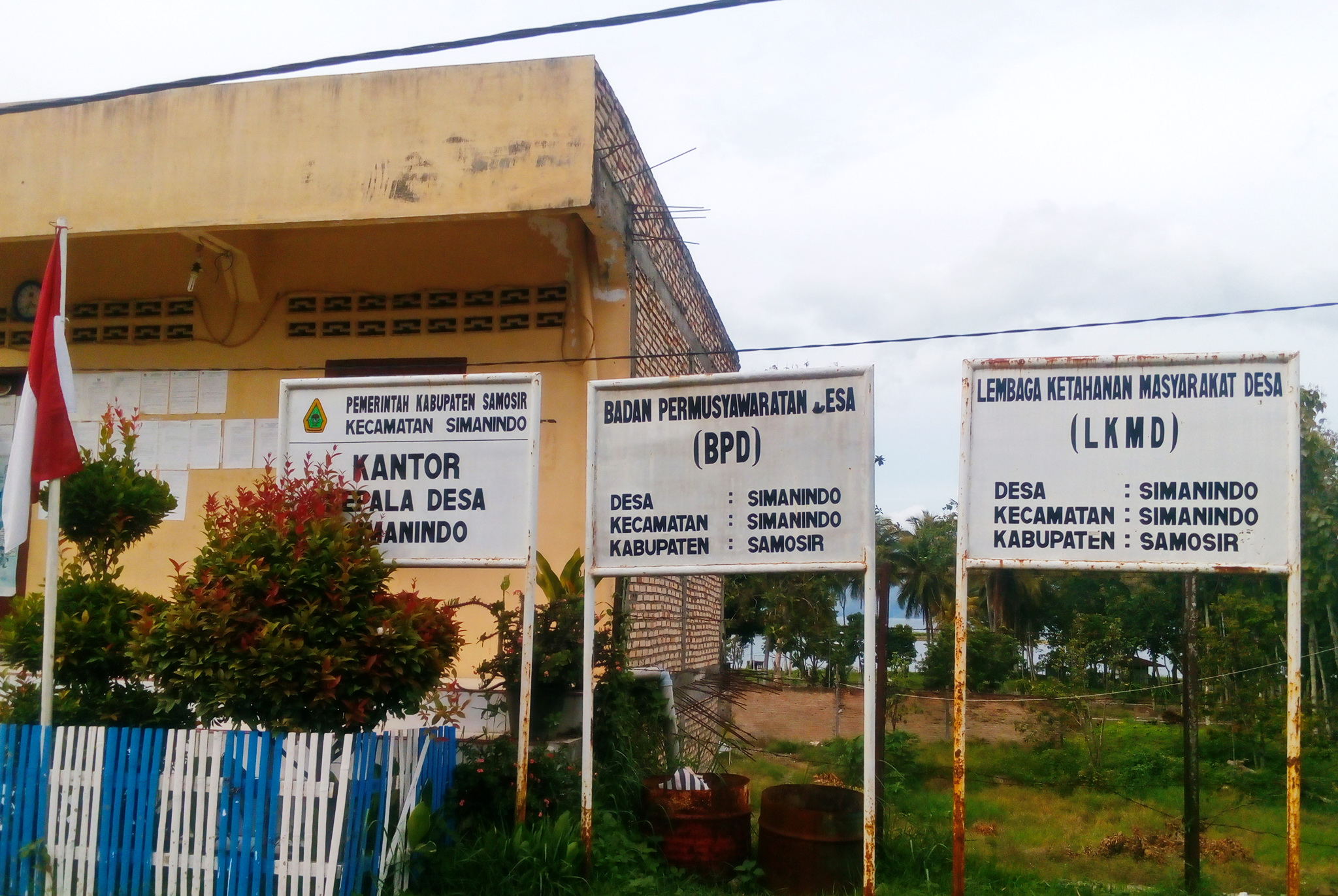 Office of Simanindo, Simanindo, Samosir